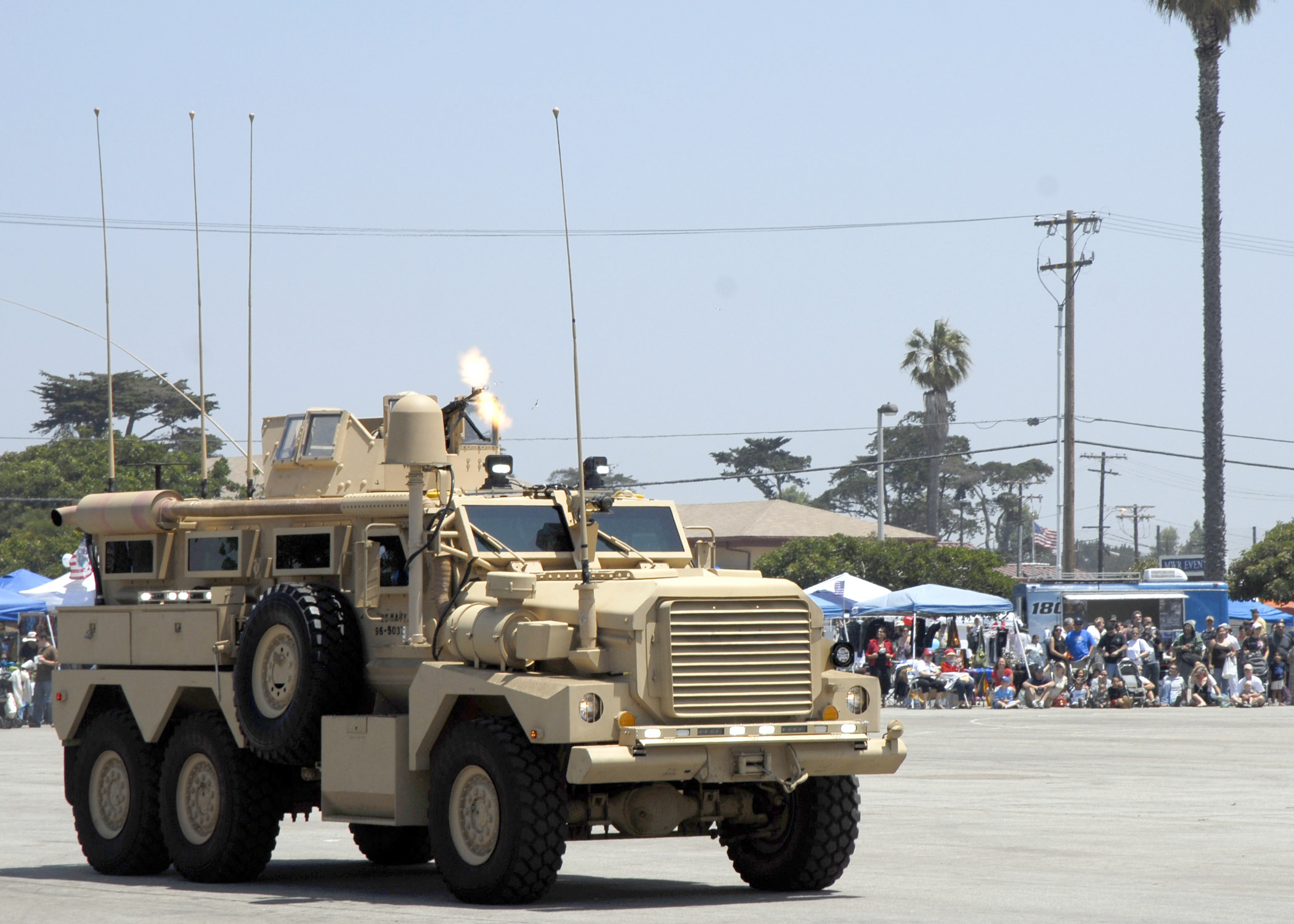 Port Hueneme, Calif. (June 28, 2008) Members of Naval Mobile Construction Battalion (NMCB) 4 convoy security team perform a firepower demonstration for the guest of the Seabee Day's parade on the main grinder at Naval Base Ventura County, Port Hueneme. Seabee days is an annual event celebrating the Navy Seabees and allows the community to learn more about the Naval Construction Force. U.S. Navy photo by Mass Communication Specialist 3rd Class Patrick W. Mullen III (Released)